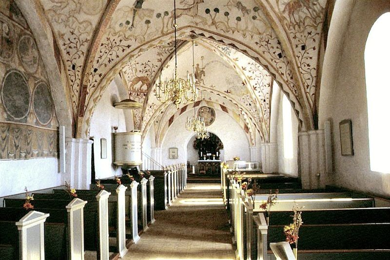 Bregninge Kirke (church) in Kalundborg Kommune